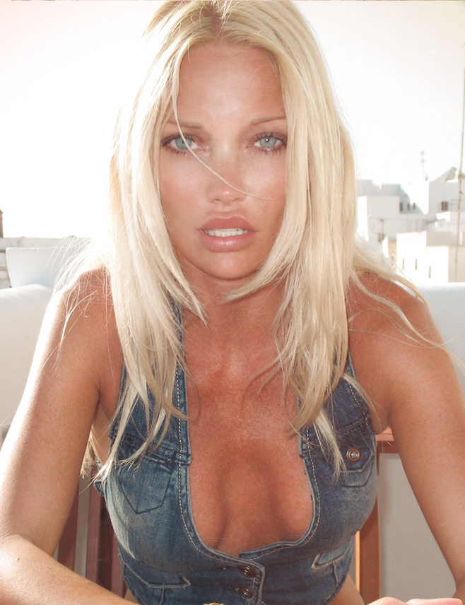 Olinda in Marbella 2014